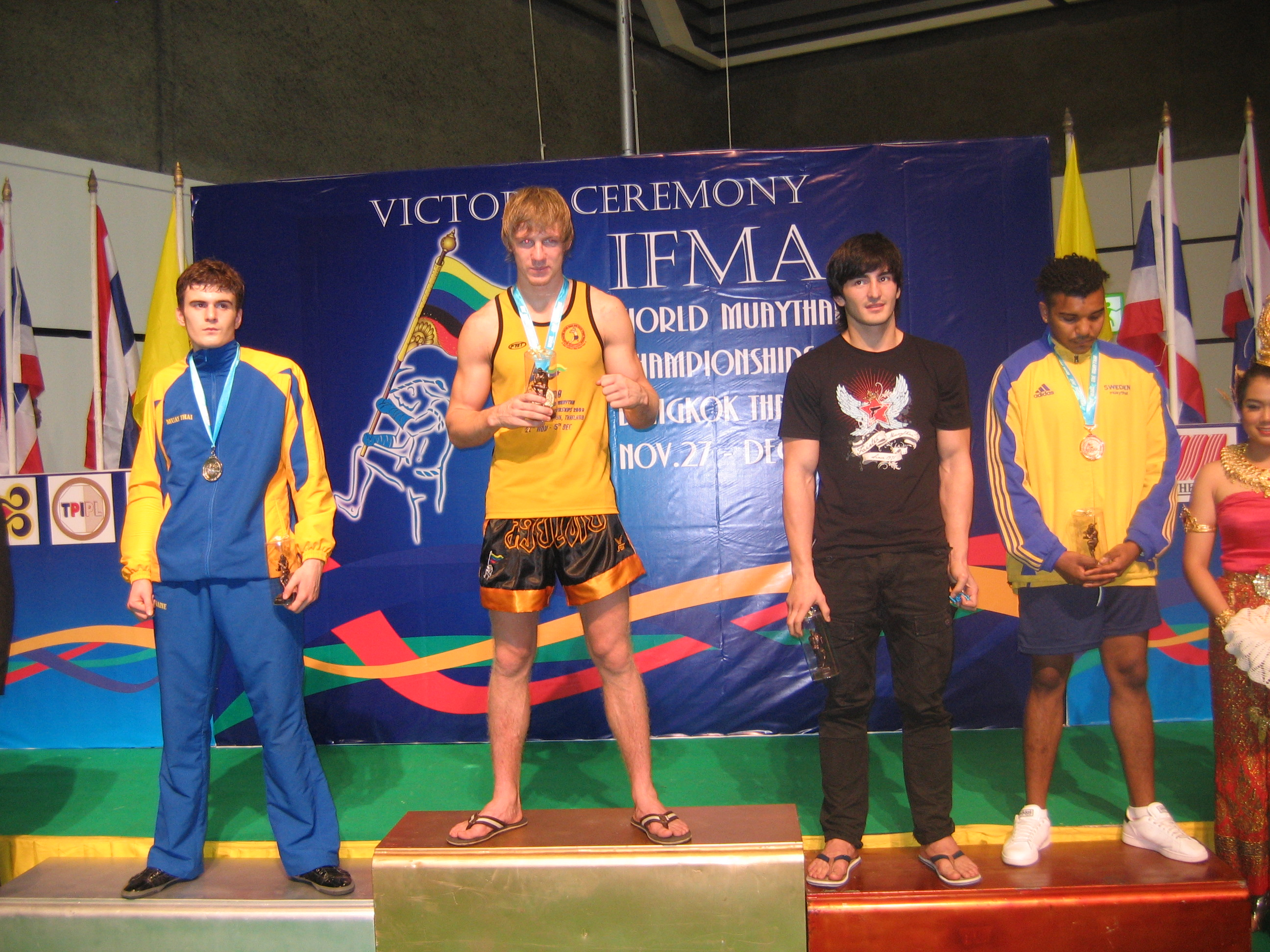 Dzianis Hancharonak enjoys victory at 2009 IFMA World Championships in Bangkok, Thailand